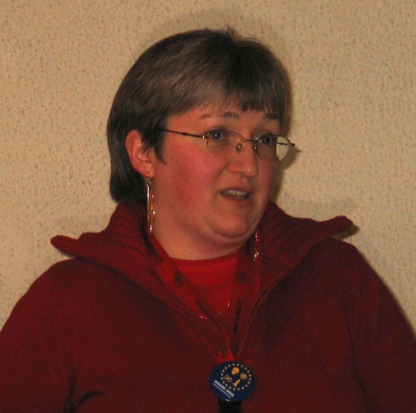 Juliet E. McKenna lecturing at the IstraKon convention, Pazin, Croatia.